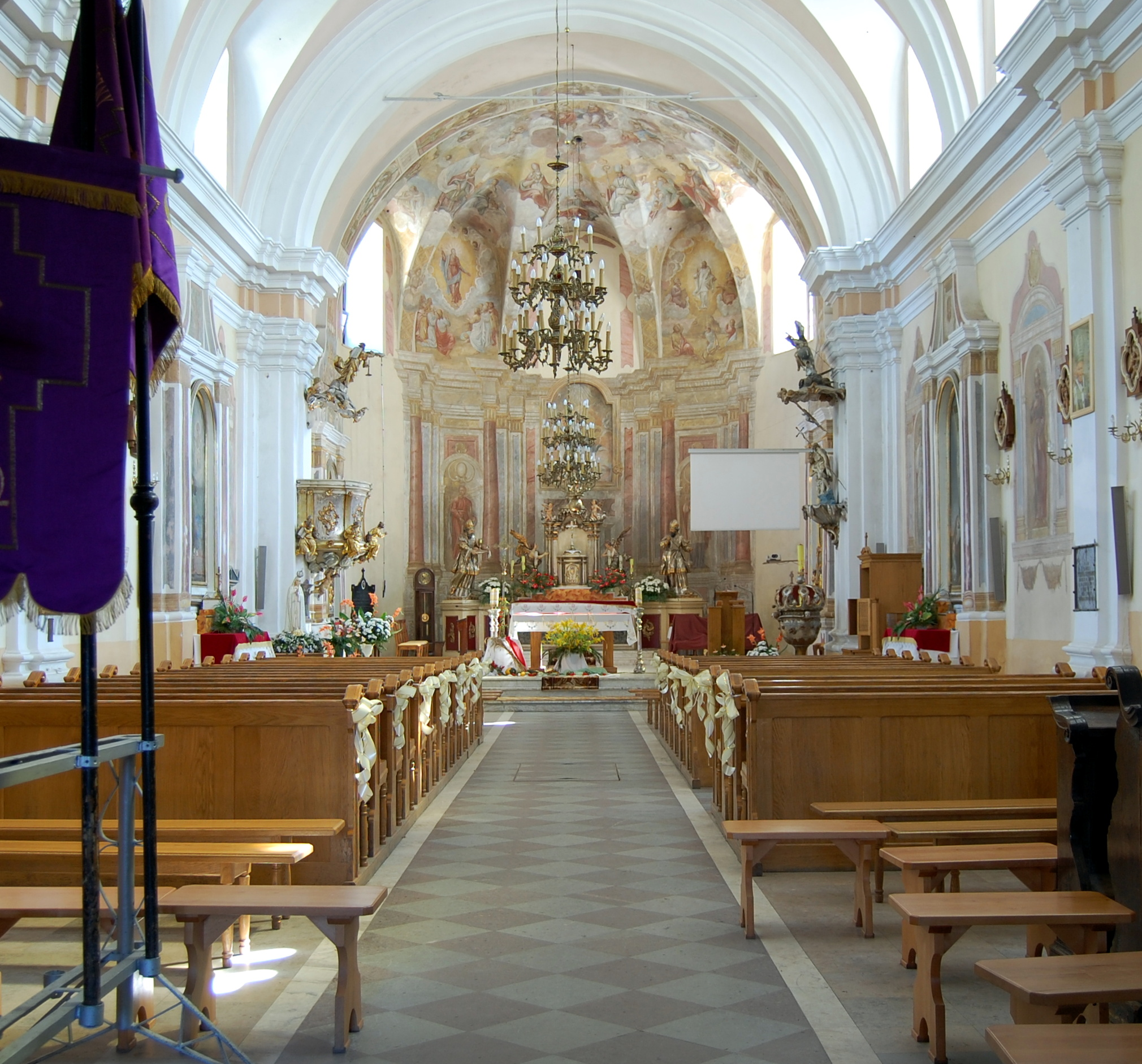 Interior of the church in Kłoczew, Lublin Voivodeship, Poland.